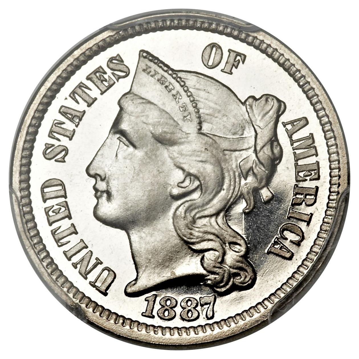 1887/6 three-cent nickel (1204-4032)